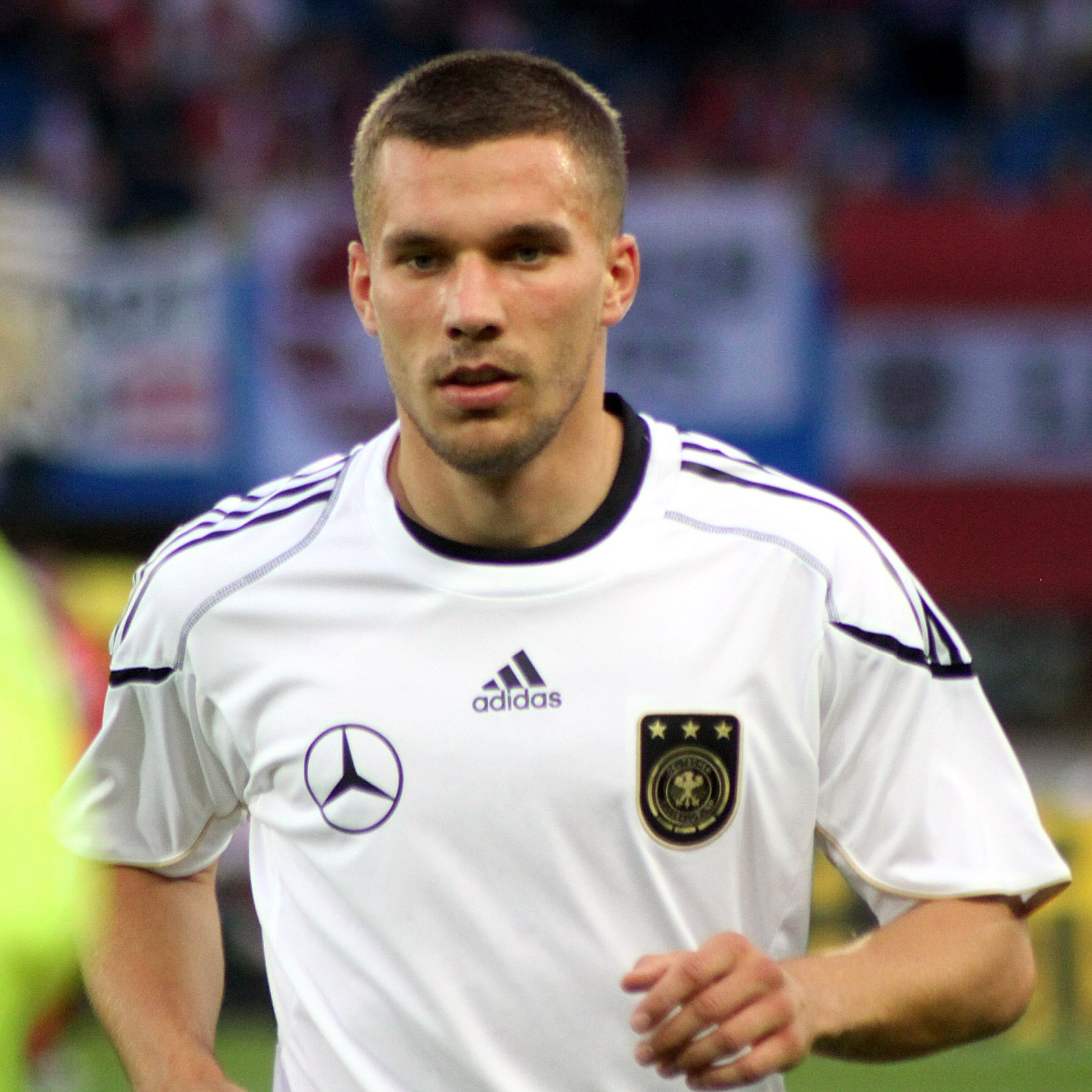 Lukas Podolski (1. FC Köln), german national football team